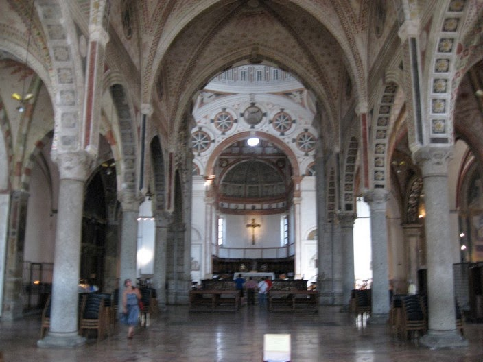 In the church Santa Maria delle Grazie (Milano)